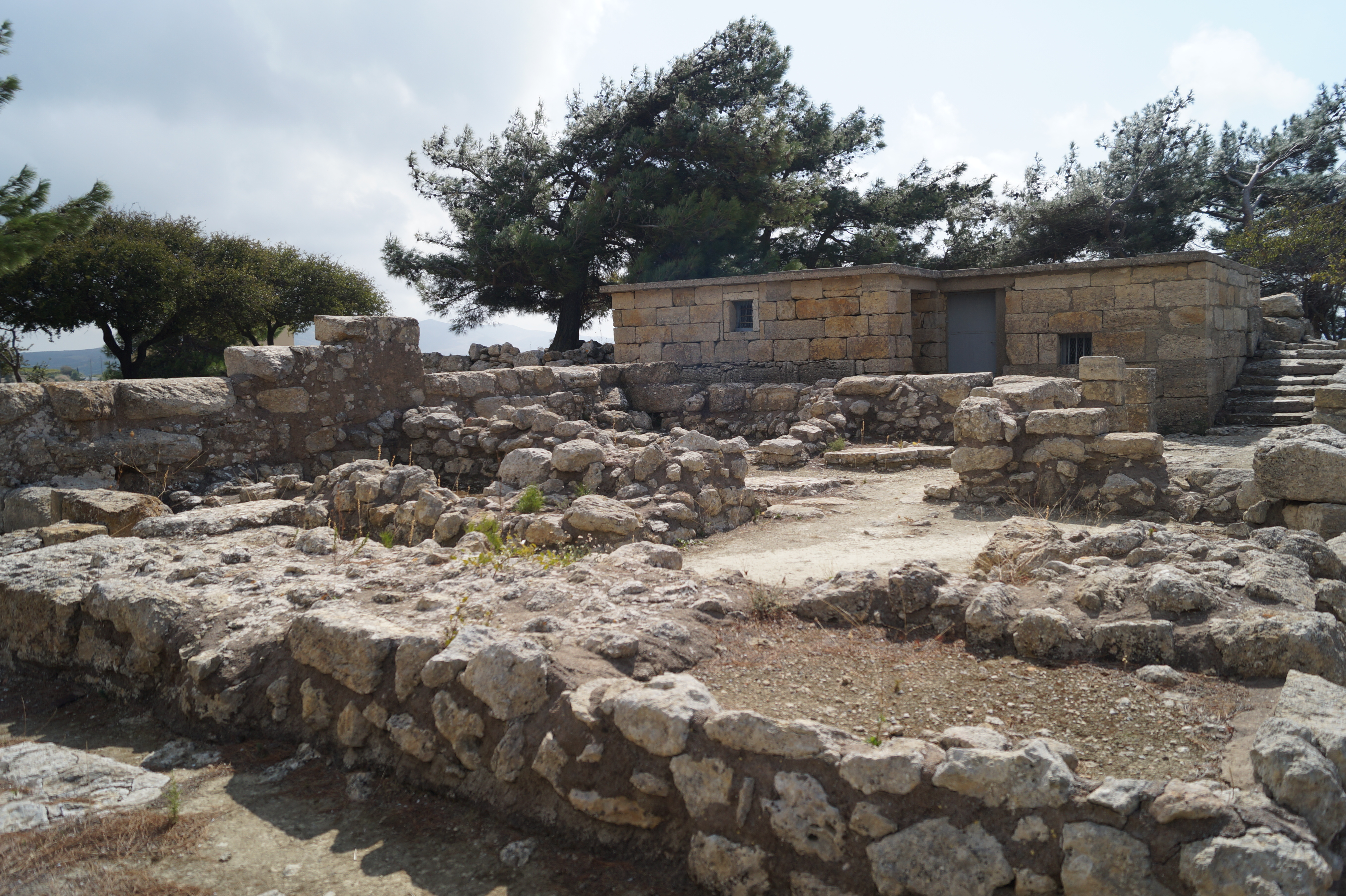 Crete, Minoan villa of Vathypetro: West building.